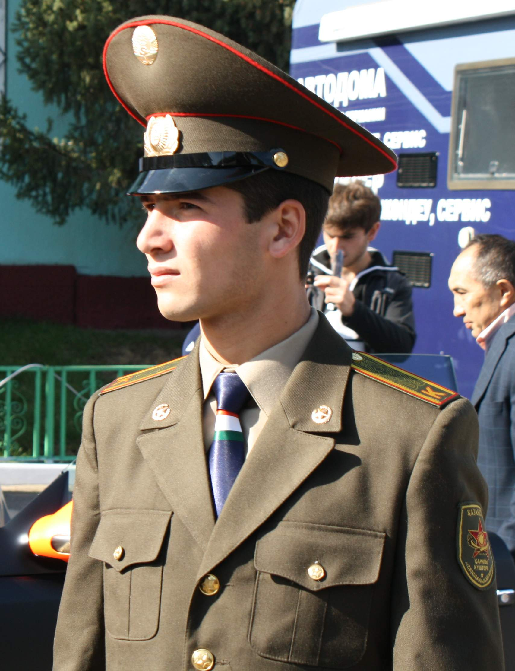 A Kursant of the Tajikistani armed forces studying in a Kazakhstani officers high school.